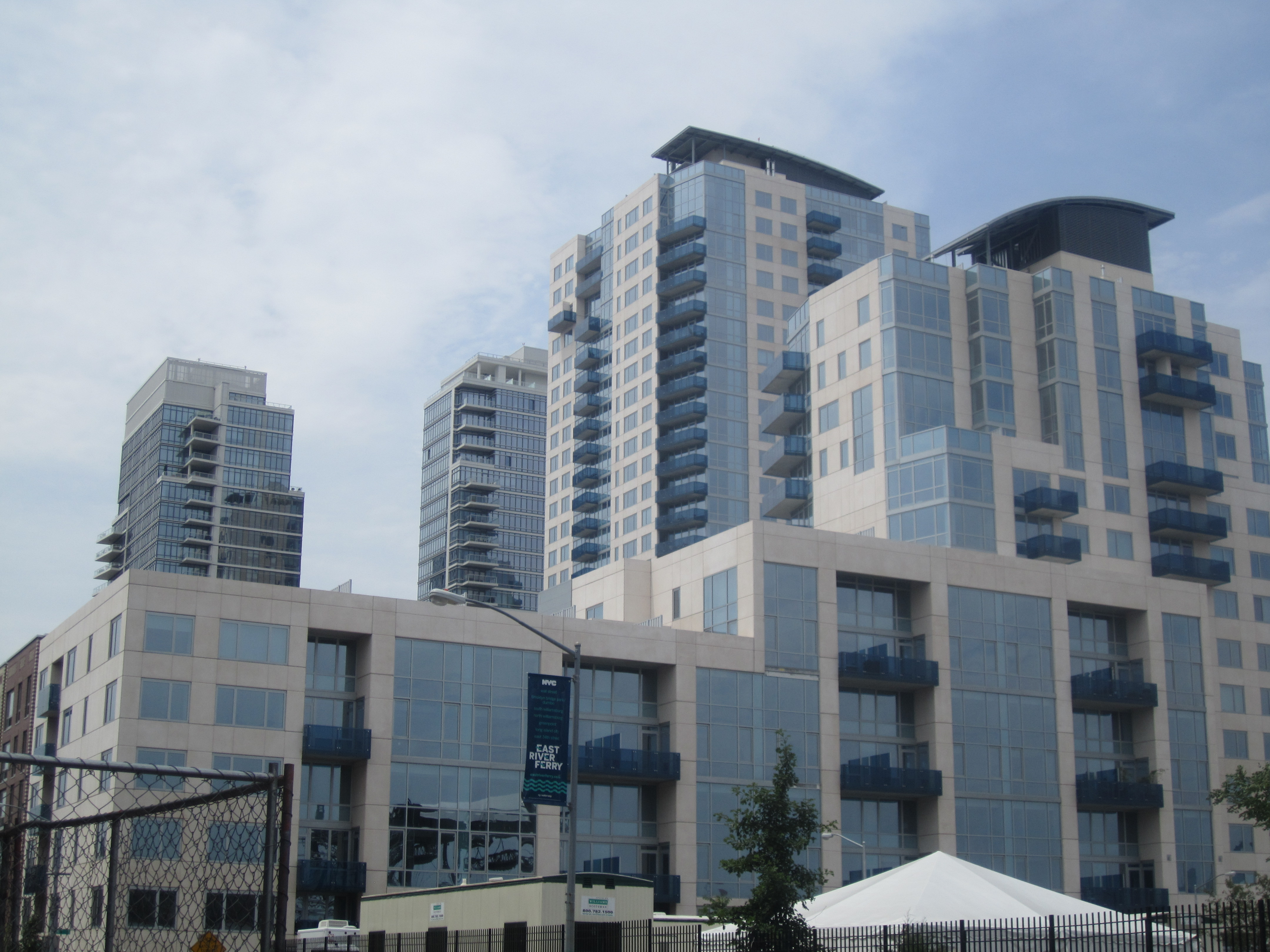 Level Apartments (2006-09) in Brooklyn near East River Park.